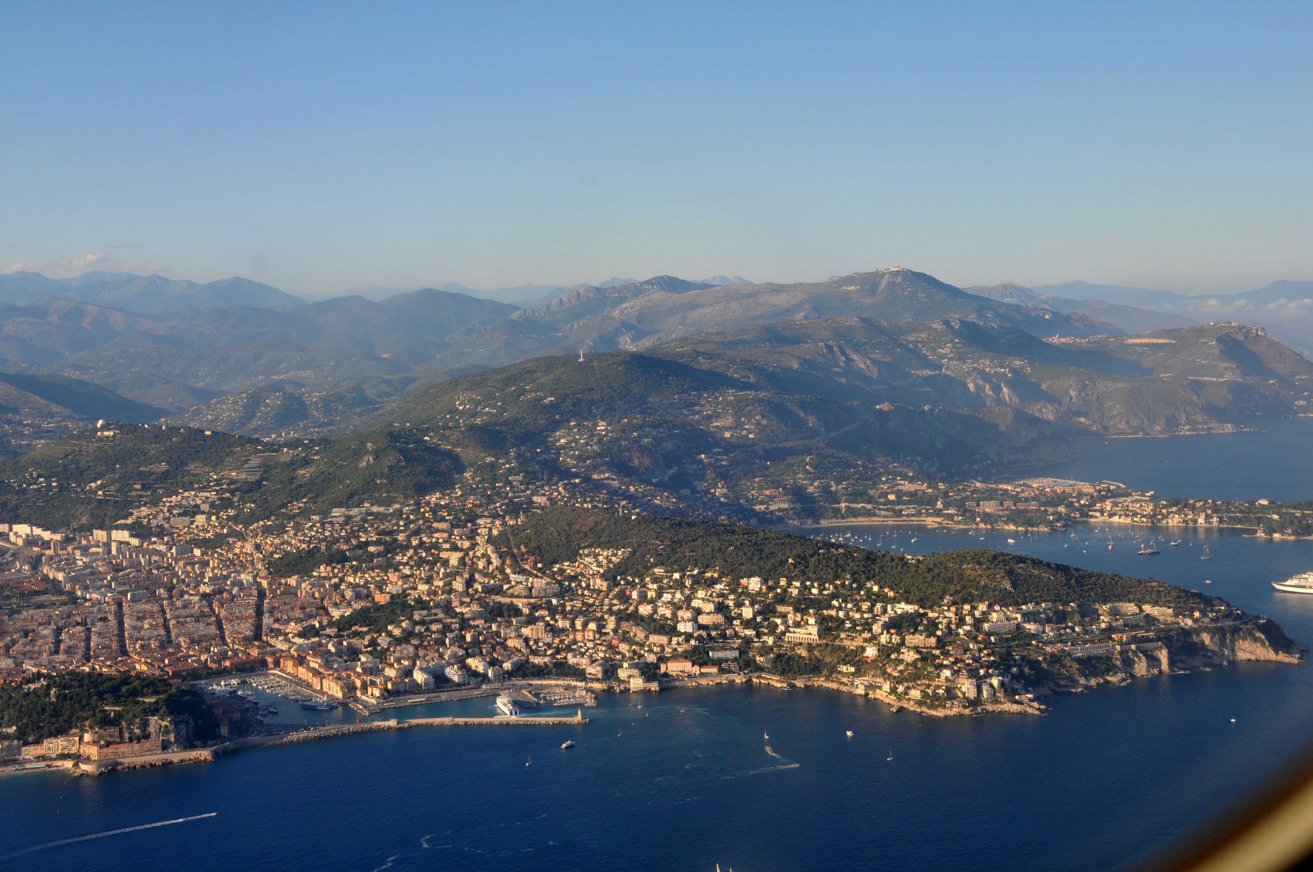 Aerial photograph of south-eastern Nice, France. On the right, the roadstead of Villefranche-sur-Mer. On the left, in the foreground, the harbour of Nice.